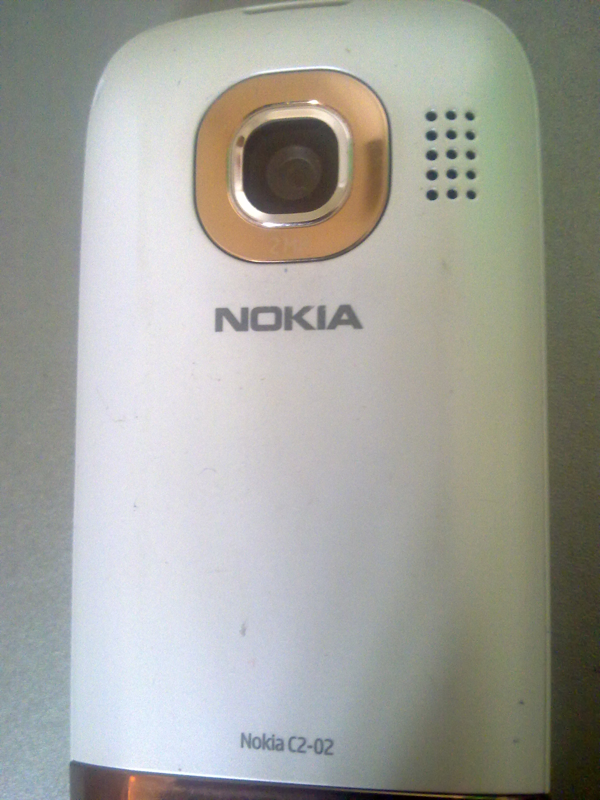 The shrinking size of the camera has enabled it to be integrated into the cellphone. Pictured here is a Nokia C2-02 showing its two-megapixel camera. This picture itself was taken using the phone camera of Nokia N97 mini.